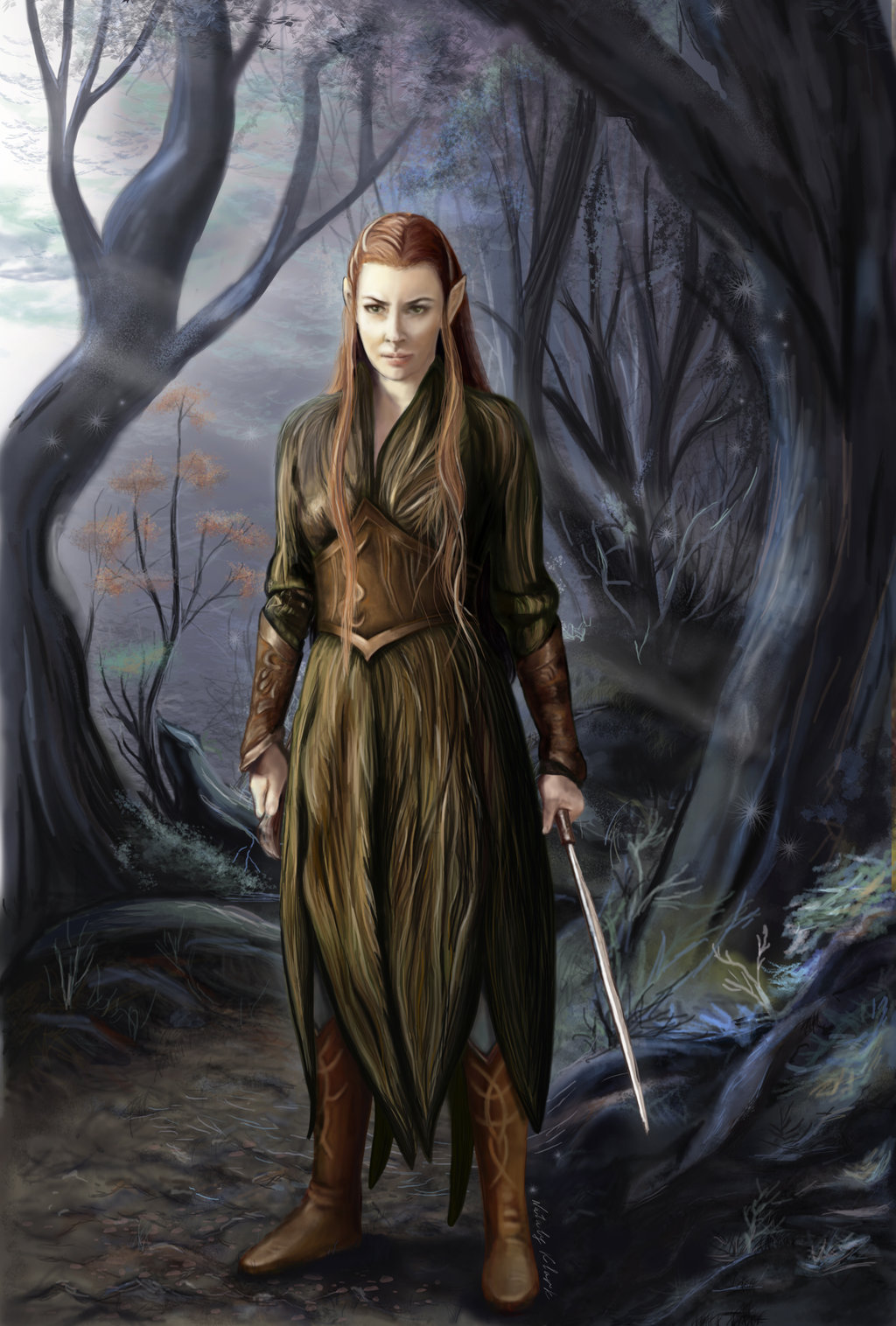 Tauriel daughter of Mirkwood